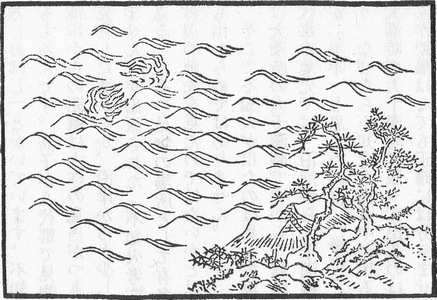 Shiranui (不知火, Marine bioluminescence) from the Shokoku-Rijindan (諸国里人談)